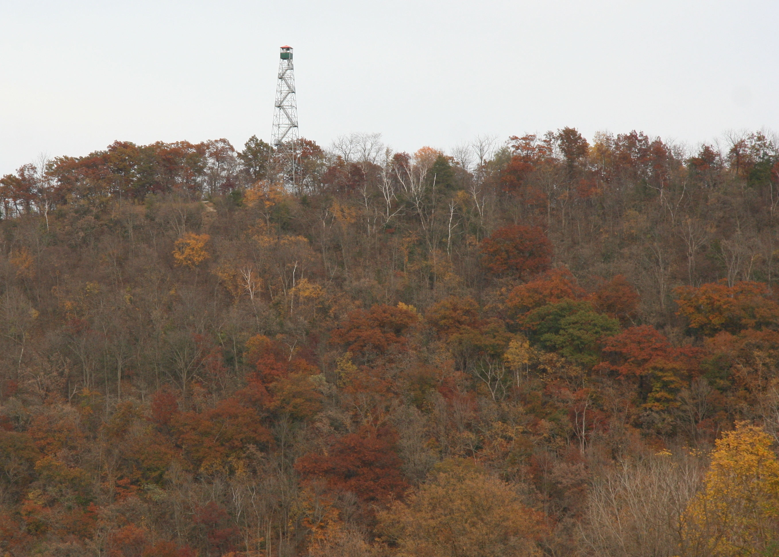 Elba Fire Tower on Fire Tower Hill, seen from Minnesota State Highway 74 in Elba, Minnesota